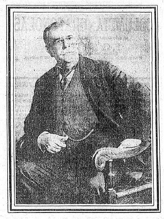 Newspaper printed photograph of Yank Adams at 67 years of ago